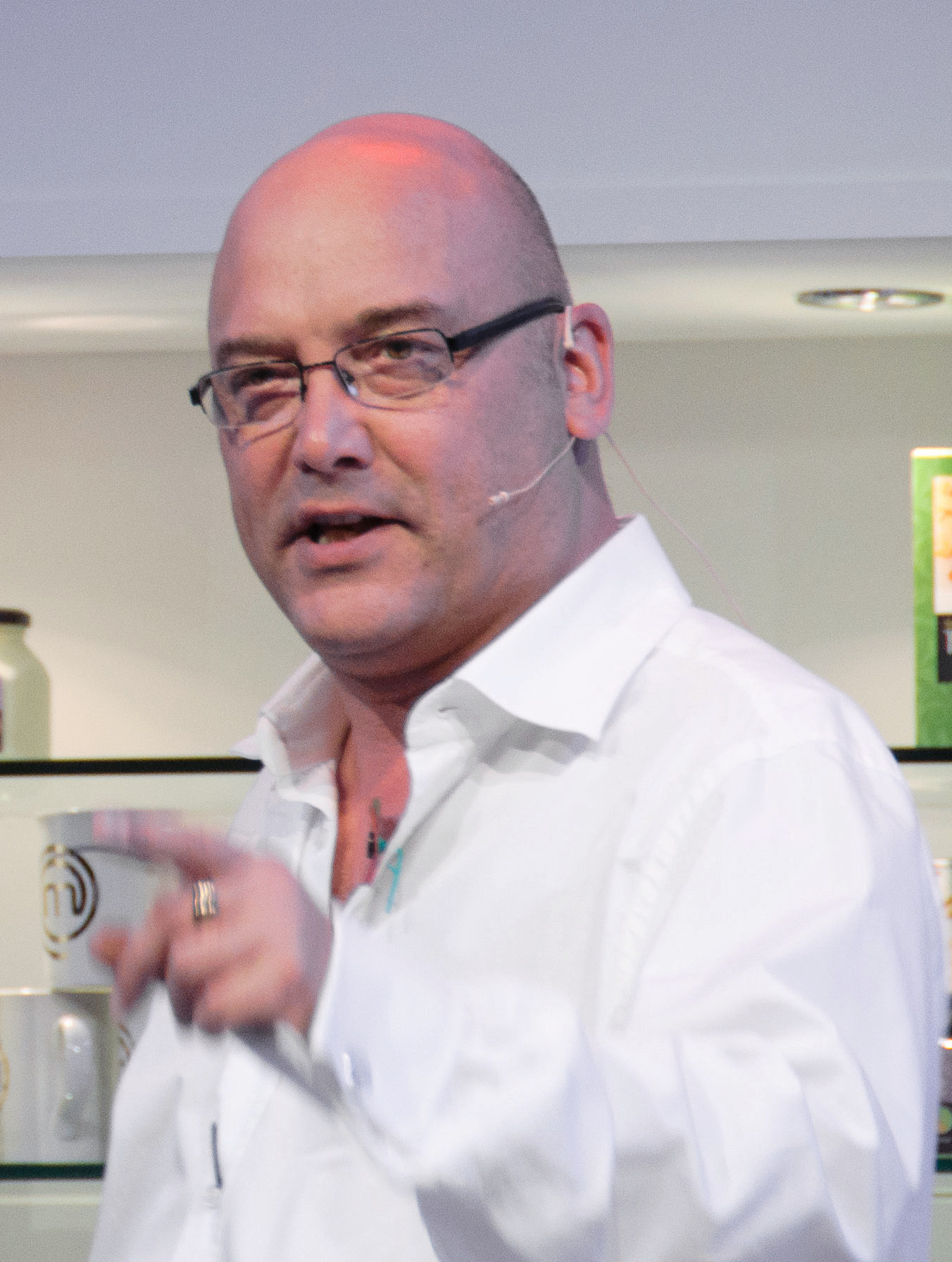 Judge Gregg Wallace at Masterchef Live 2010 in London.